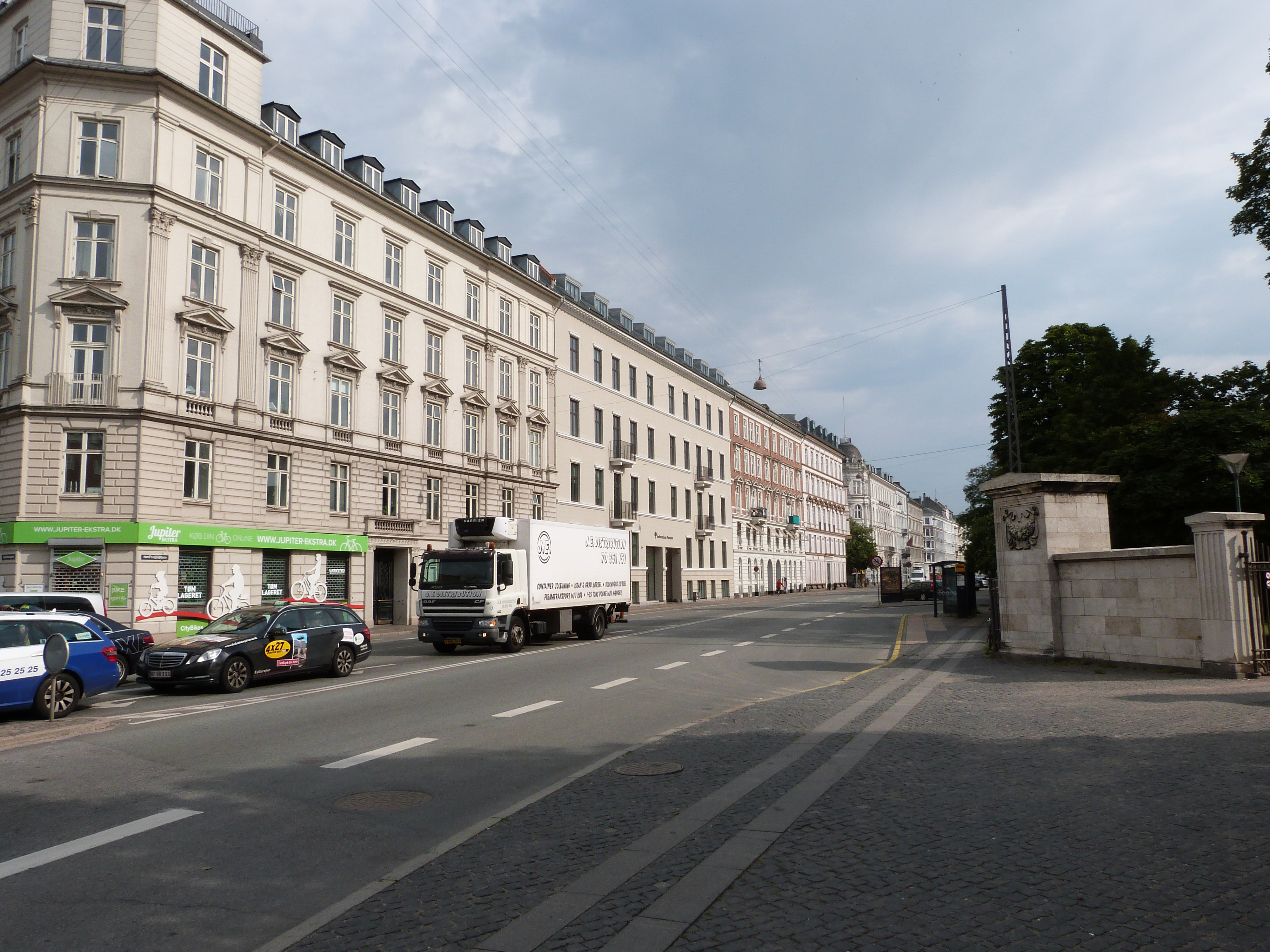 The street Nørre Farimagsgade with the entrance to Ørsted Park in Copenhagen, Denmark